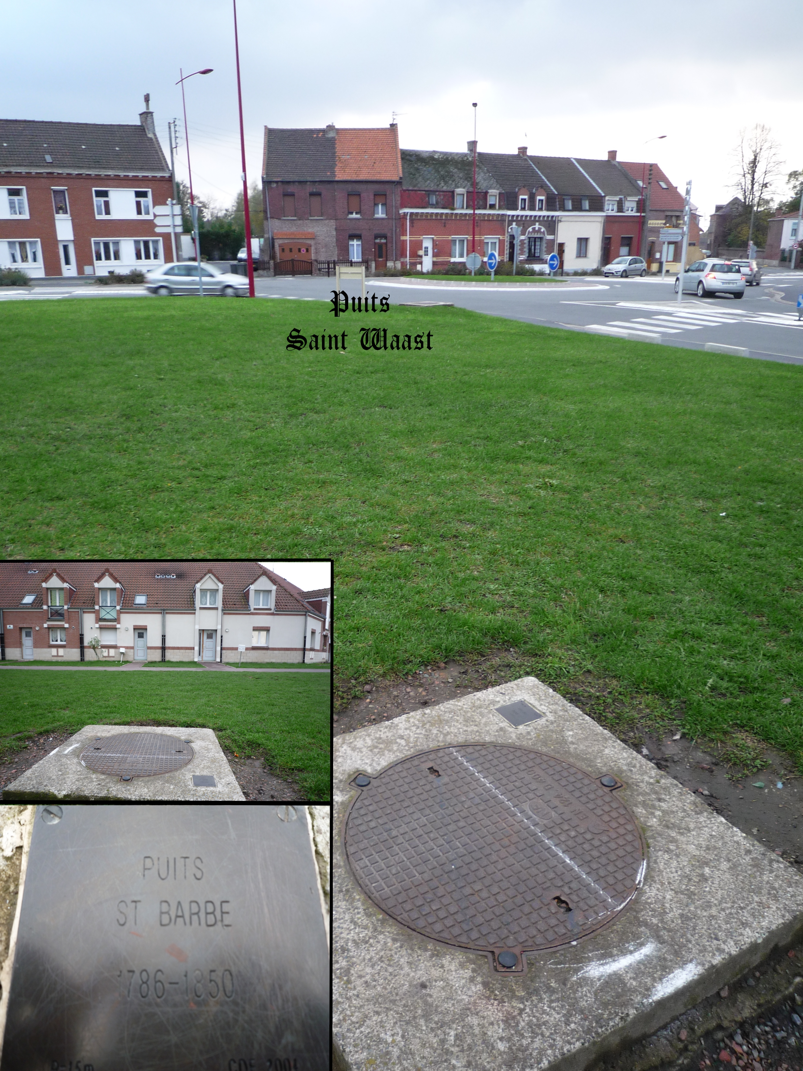 Pit of the Compagnie des mines d'Aniche, France.